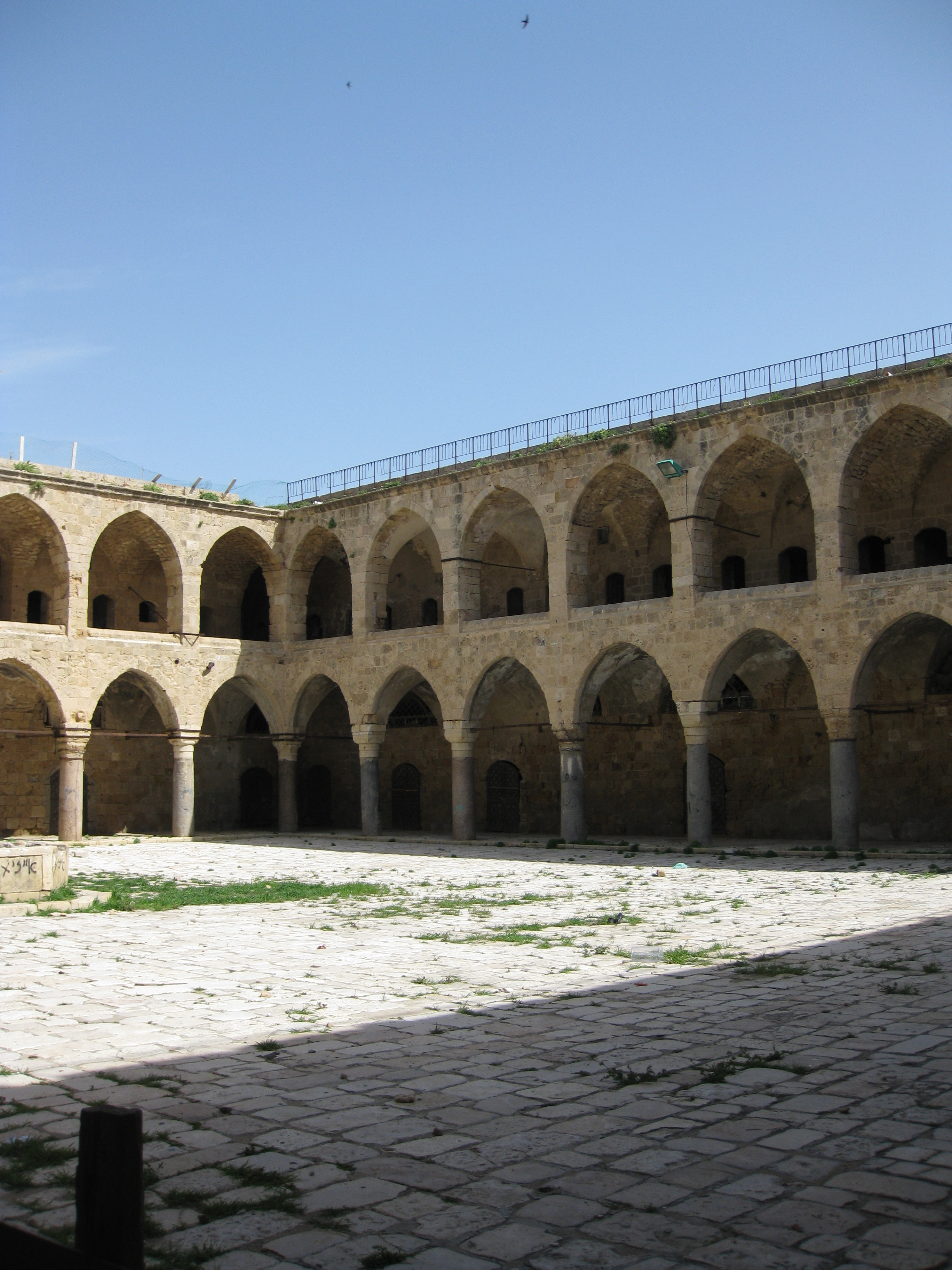 Acco (Acre, Akko) - Khan al-Umdan.